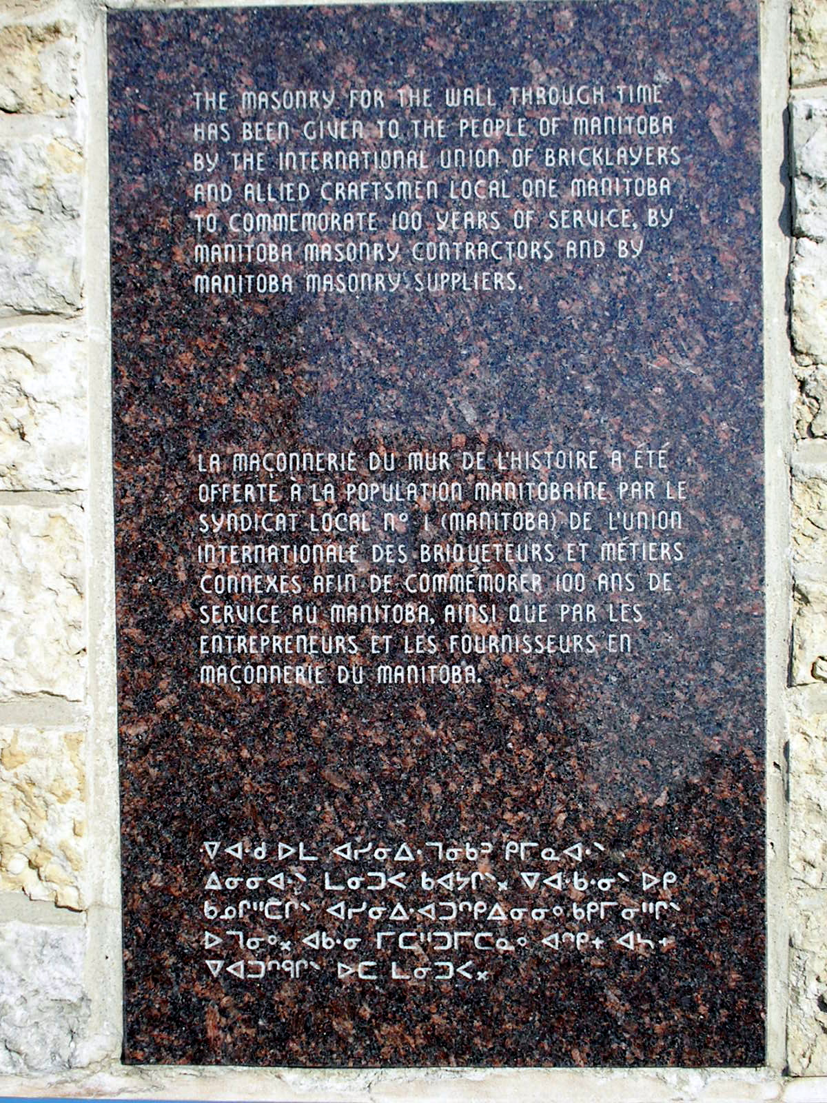 Trilingual plaque - English, French, Plains Cree - at The Forks park in Winnipeg, Manitoba, Canada. Photo taken 3 September 2005.